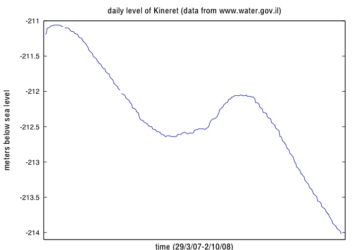 Water level of the Sea of Galilee from March 2007 to October 2008, compiled from data on